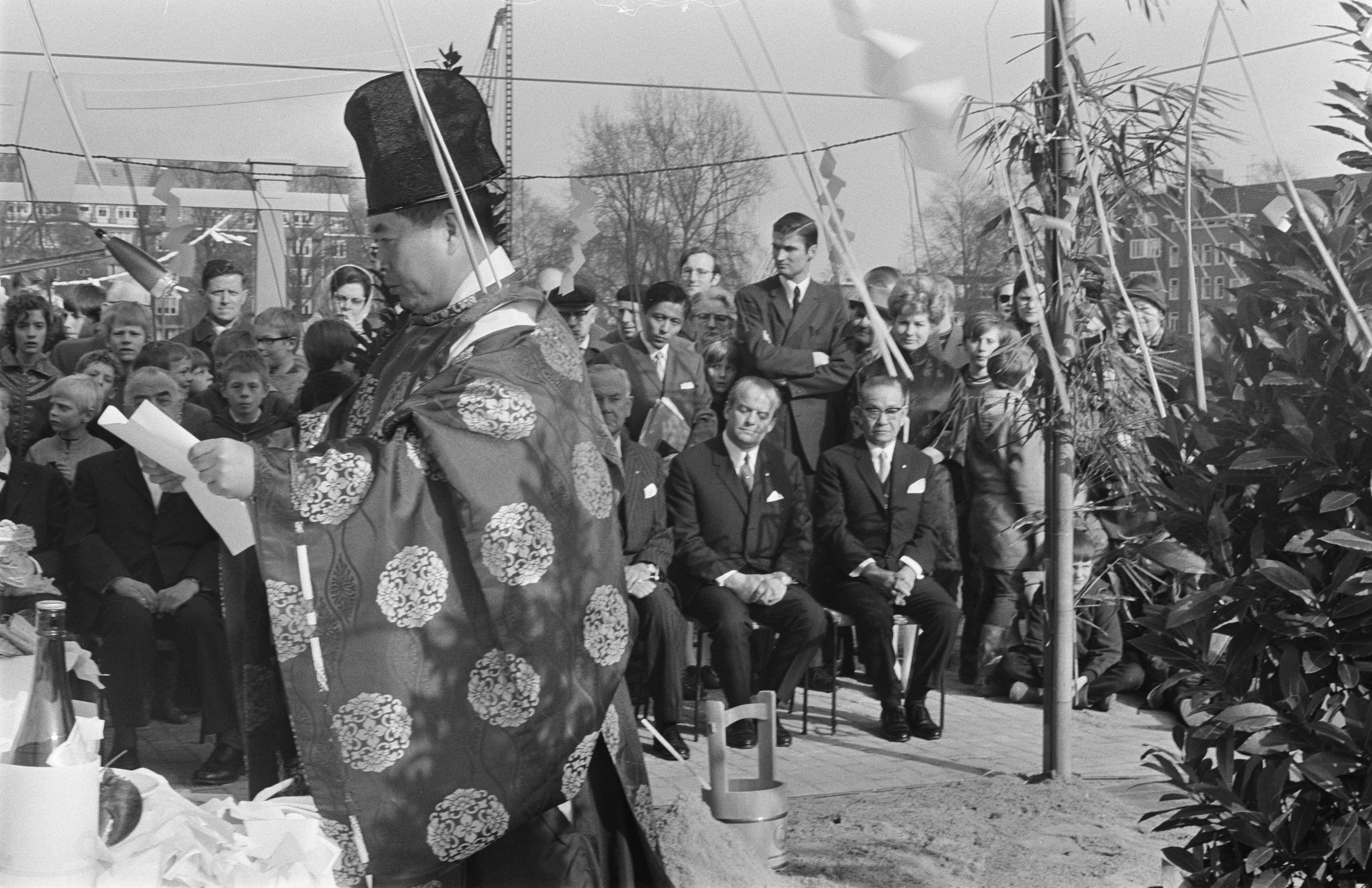 Official opening Okura Hotel Amsterdam (the Netherlands), 23 April 1969. Japanese priest. Sitting (right) Okura president I. Noda